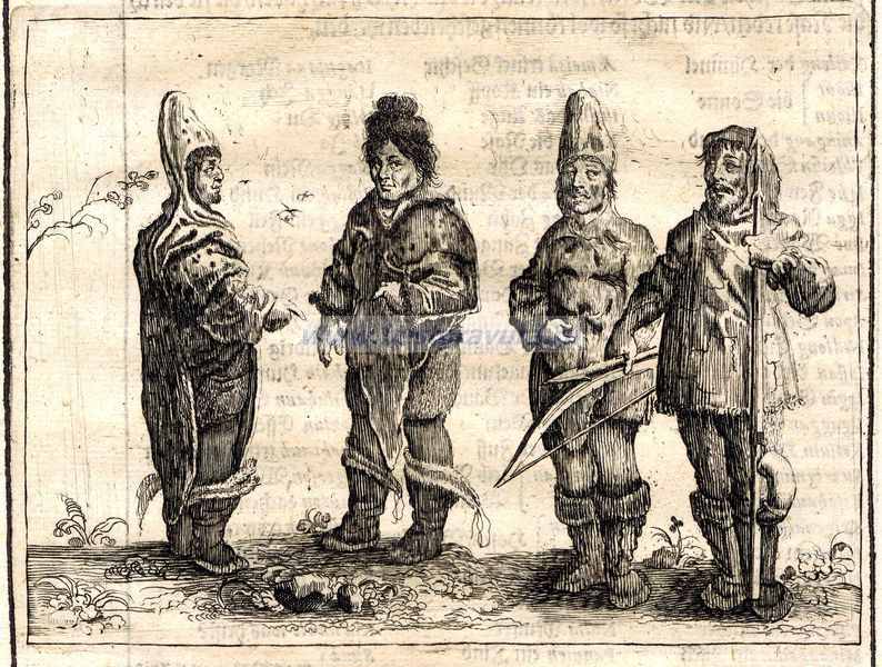 Greenlandic kalaallit. Illustration of The Voyages and Travells of the Ambassadors Sent by Frederick Duke of Holstein, to the Great Duke of Muscovy, and the King of Persia: Begun in the Year M.DC.XXXIII, and Finish'd in M.DC.XXXIX : Containing a Compleat History of Muscovy, Tartary, Persia, and Other Adjacent Countries : with Several Publick Transactions Reaching Near the Present Times : in VII Books. John Starkey, and Thomas Basset. 1669.